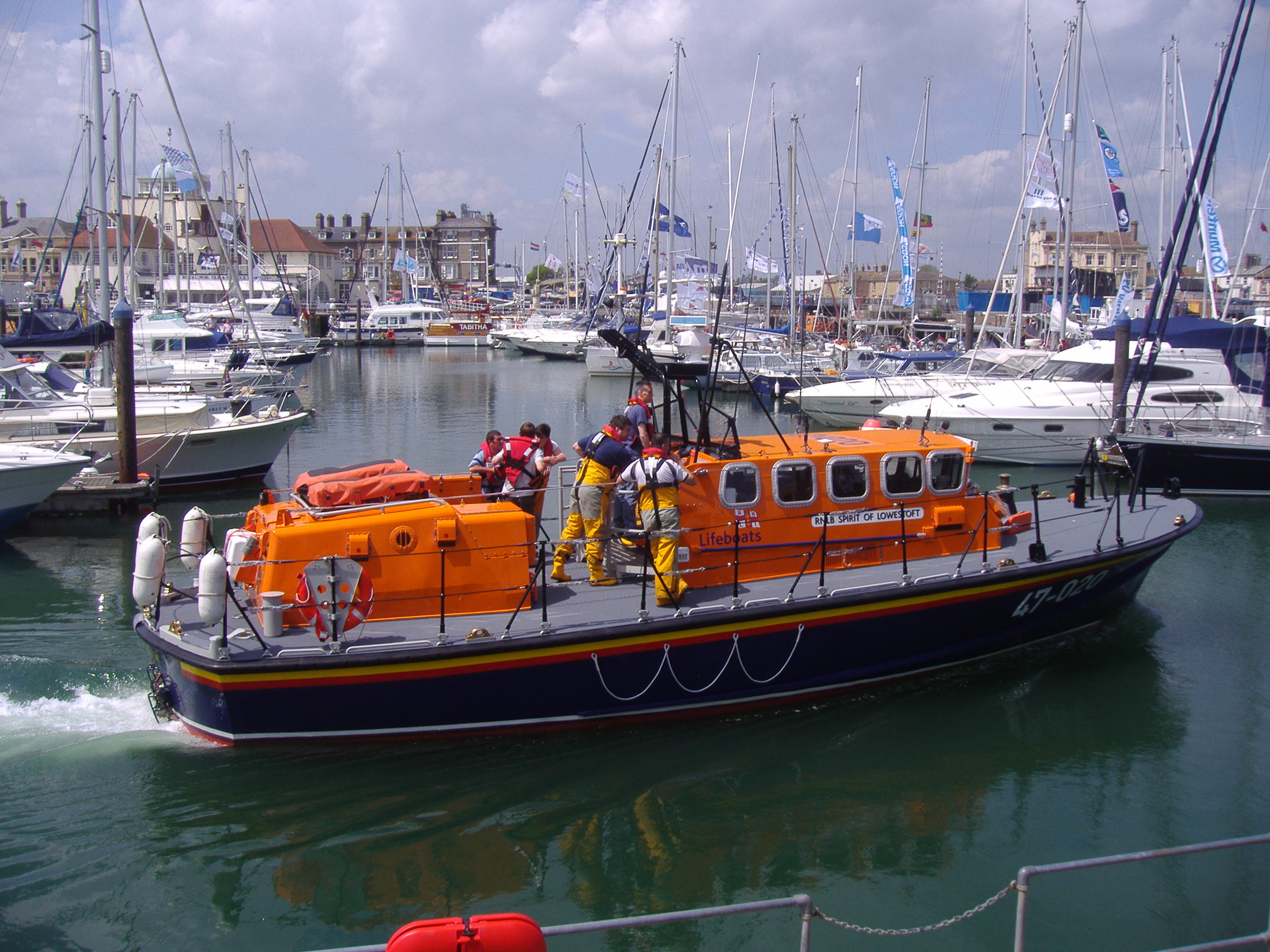 RNLI Lifeboat Spirit of Lowestoft launching to a Medical Emergency aboard the Tanker Ocean Crown on the 13th June 2009